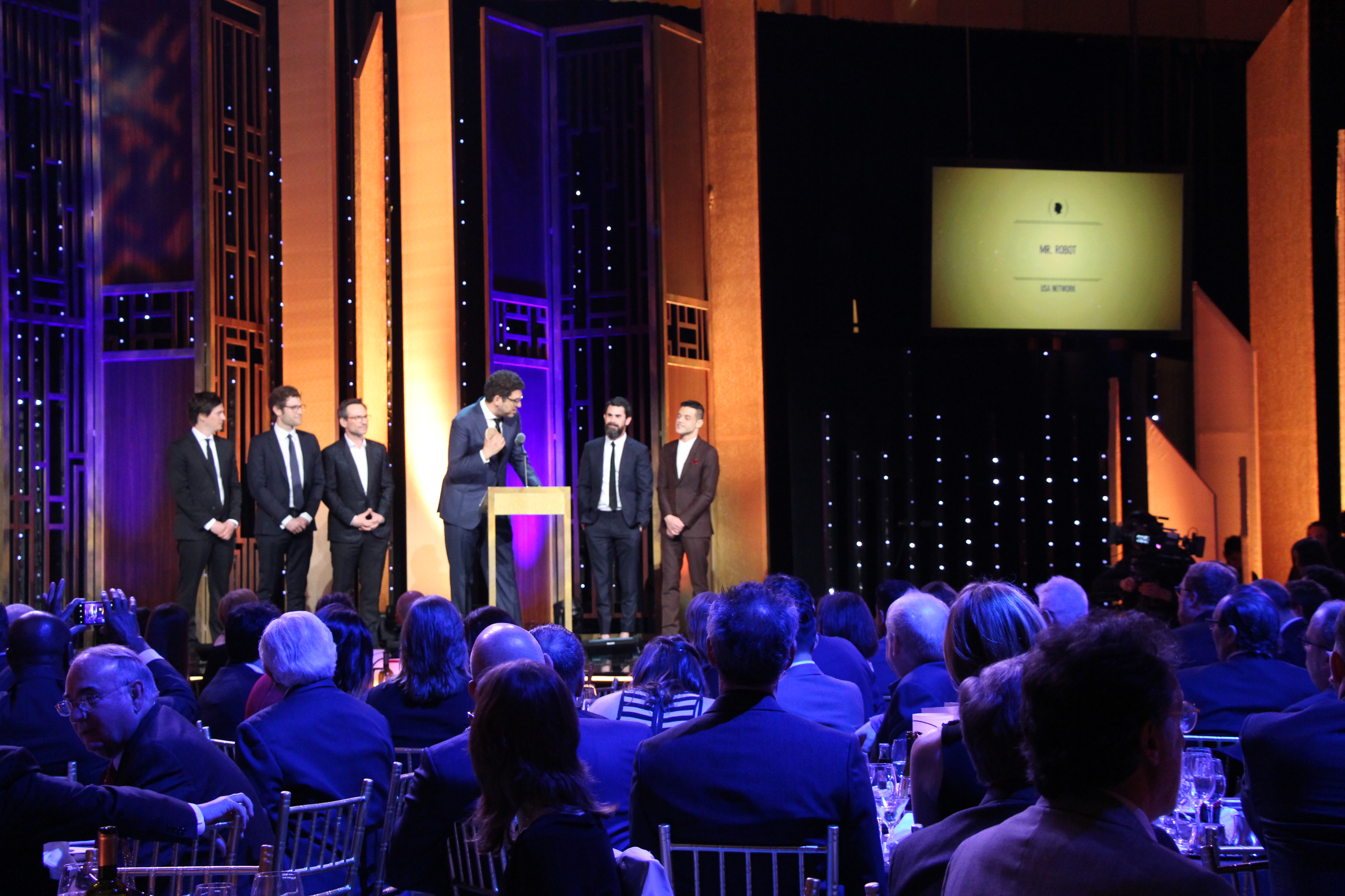 This photo includes Writer/ Co-Executive Producer Kyle Bradstreet, Writer Adam Penn, Actor Christian Slater, Creator/Executive Producer/Writer/Director Sam Esmail, Executive Producer Chad Hamilton and Actor Rami Malek accepting the Peabody for "Mr. Robot." (Photo/Sarah E. Freeman/Grady College, in New York City, Georgia, on Saturday, May 21, 2016)